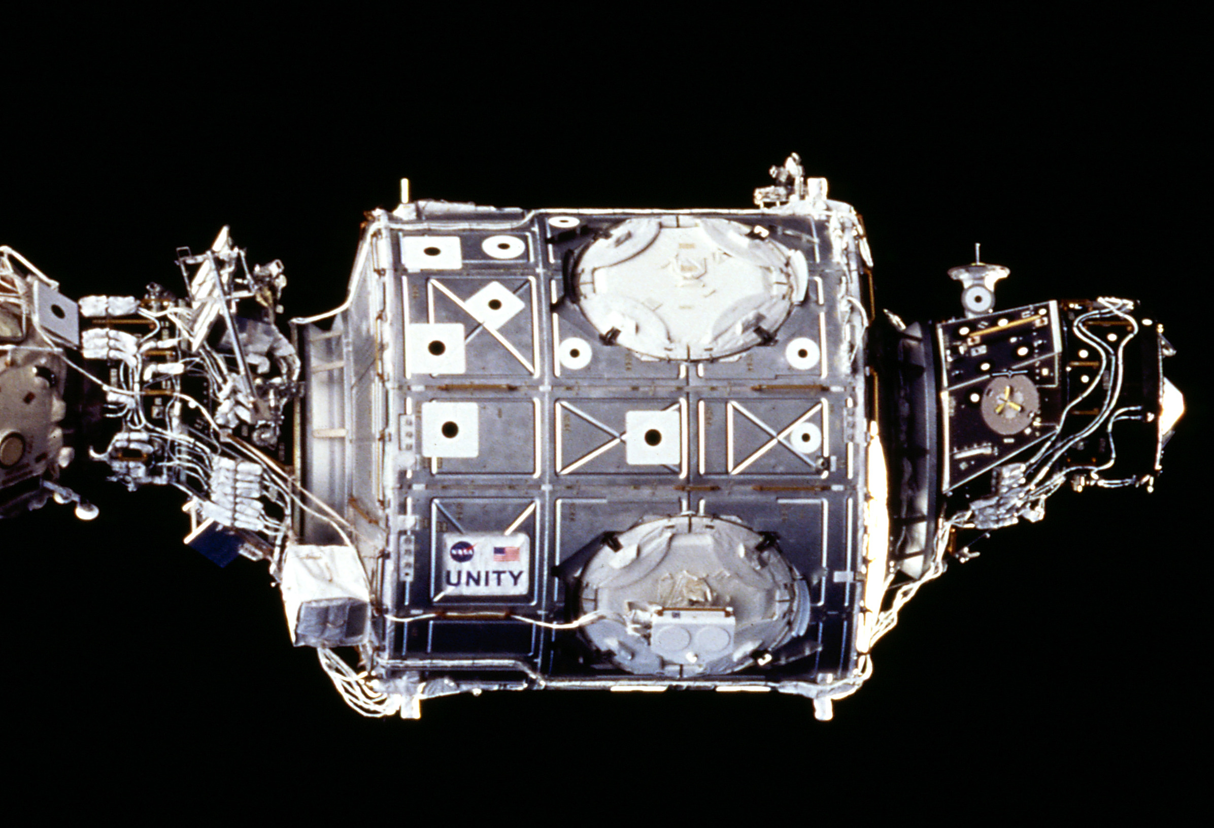 ISS Unity module (NASA) taken by STS-88 mission in December 1998